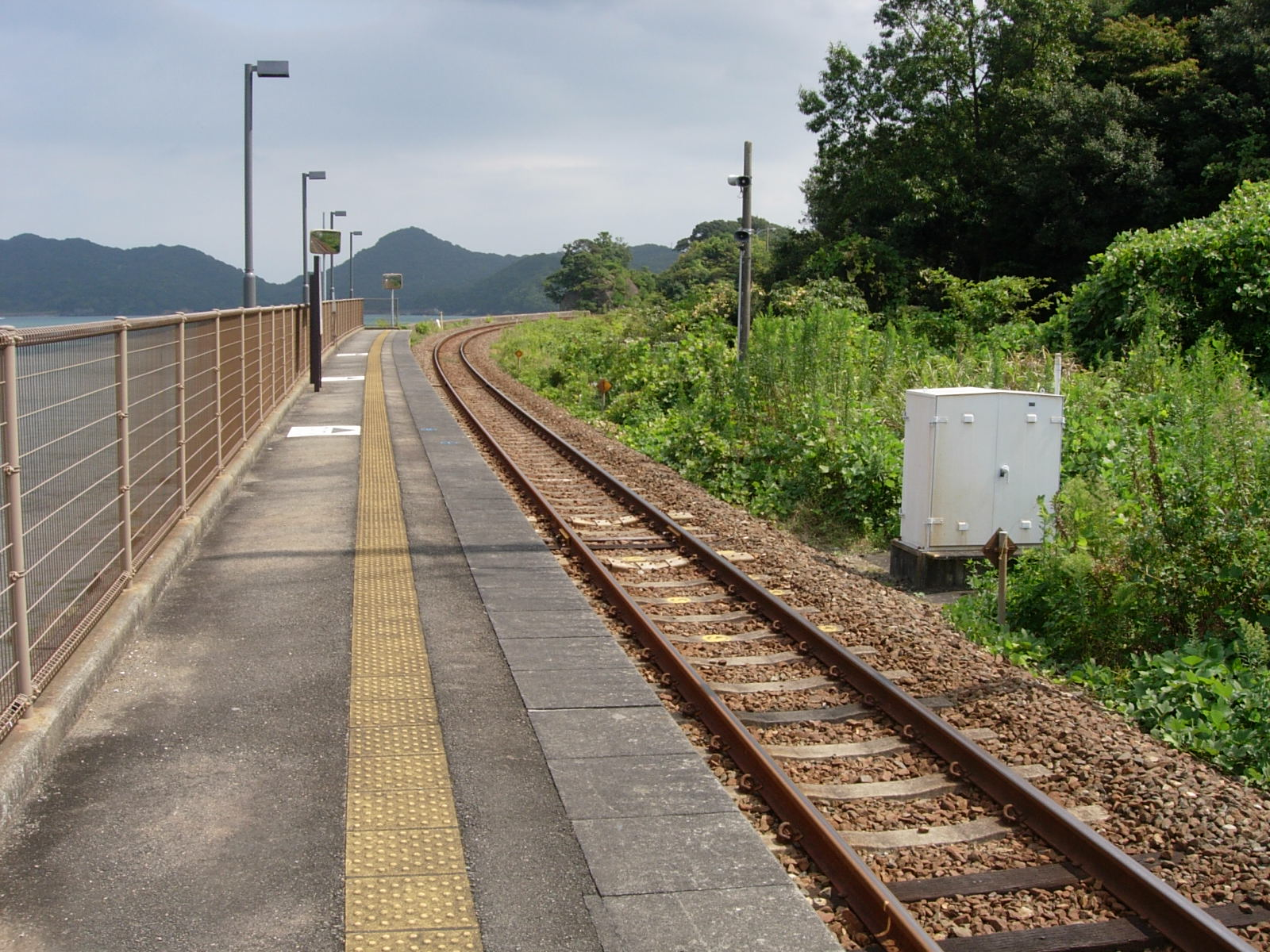 Ikenoura Seaside Station platform, Ise, Mie, Japan.